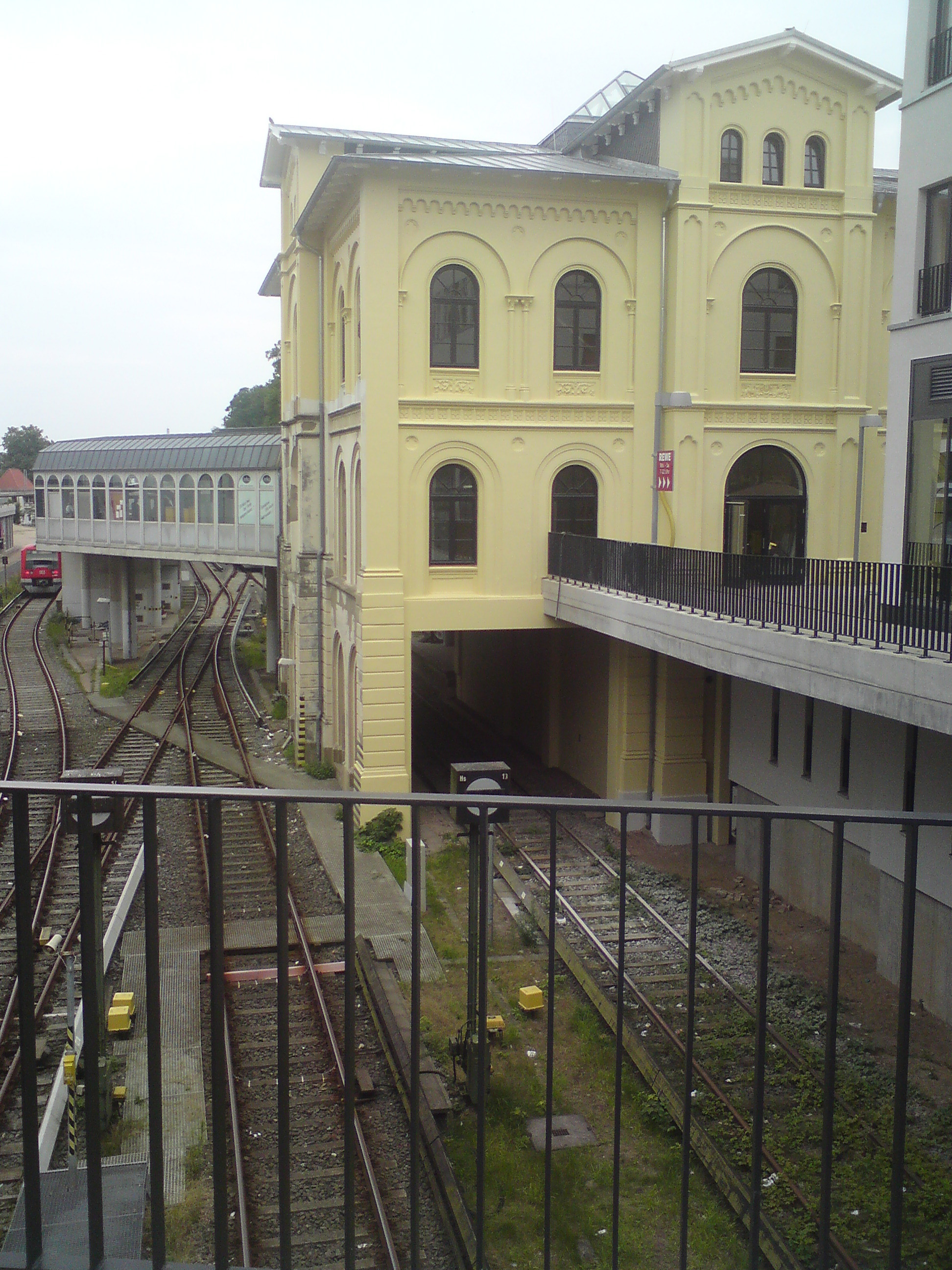 Blankenese Railway Station in Hamburg, Germany